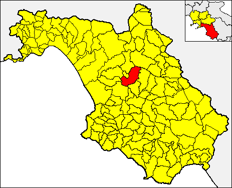 Locator map of the municipality of Castelcivita (red) within the Province of Salerno